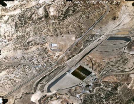 United Nuclear Corporation Site - McKinley County, New Mexico